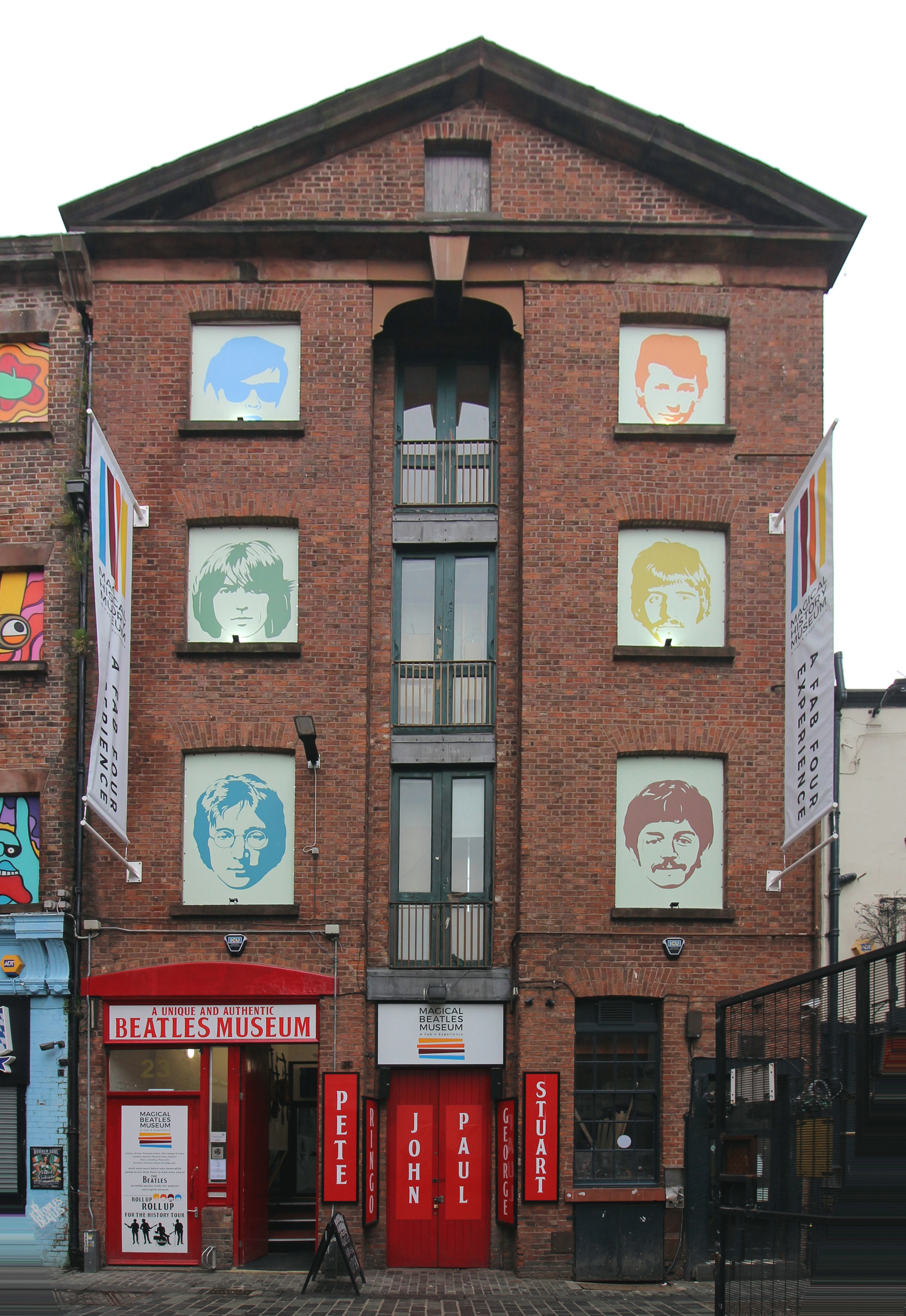 Early 19th century Grade II listed former warehouse on Mathew Street, Liverpool.